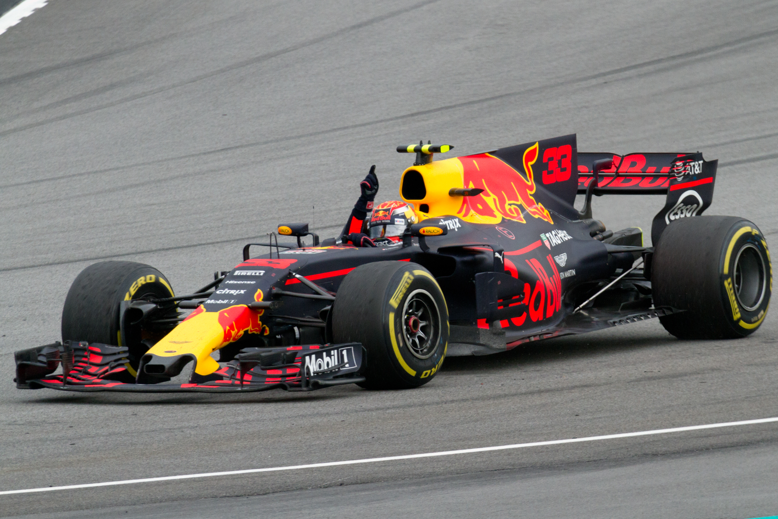 Formula One 2017 Rd.15 Malaysian GP: Max Verstappen (Red Bull)